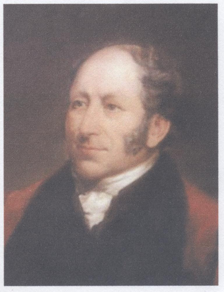 Dr Edward Thomas Monro of the distinguished Monro of Fyrish family